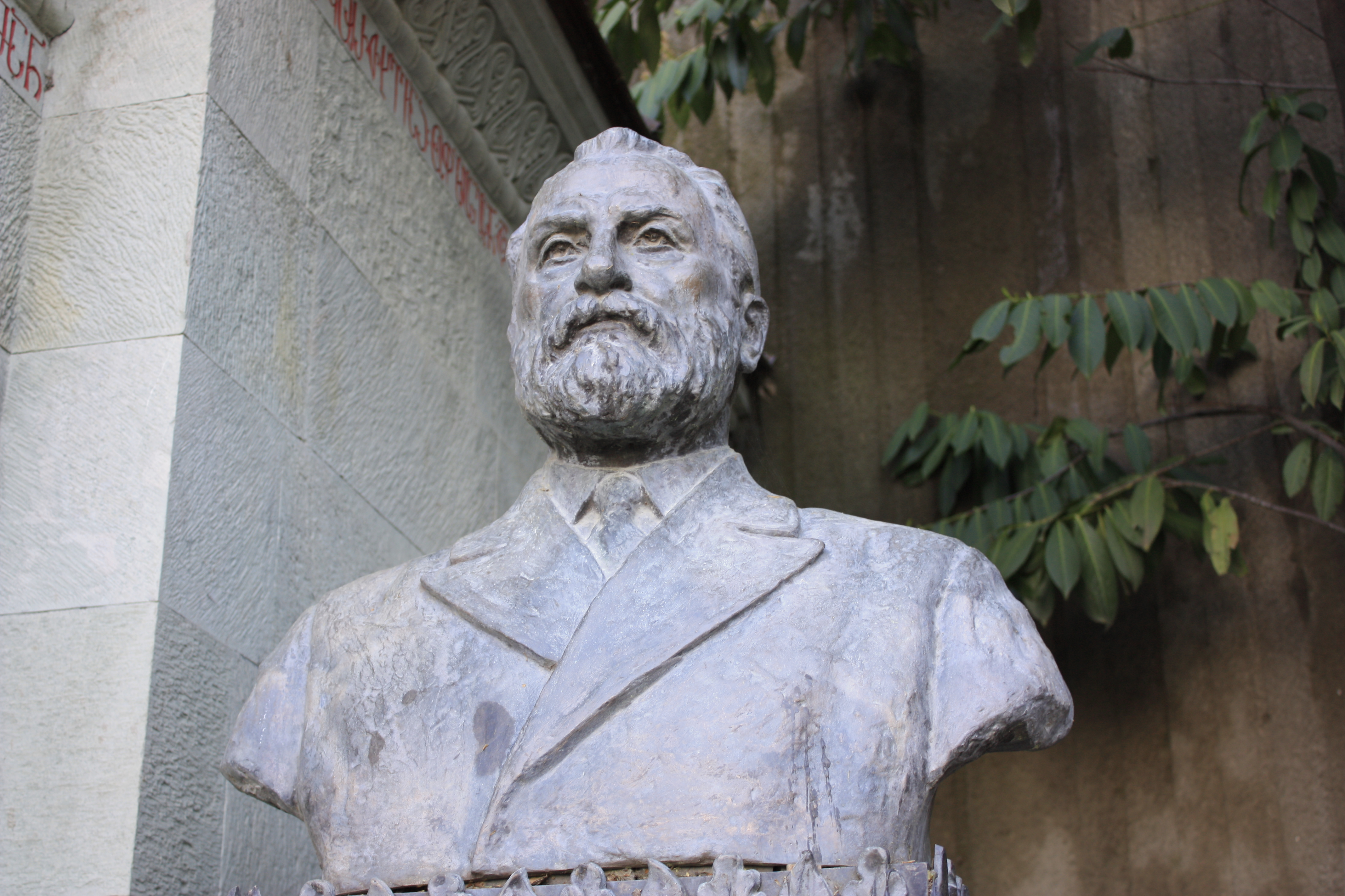 The monument of Iakob Gogebashvili in Mtatsminda pantheon.